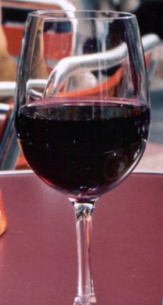 Cropped version of Image:Pinchos aperitivo.jpg taken by Ardo Beltz and licensed with on Wikipedia Commons on Nov 13th, 2005.